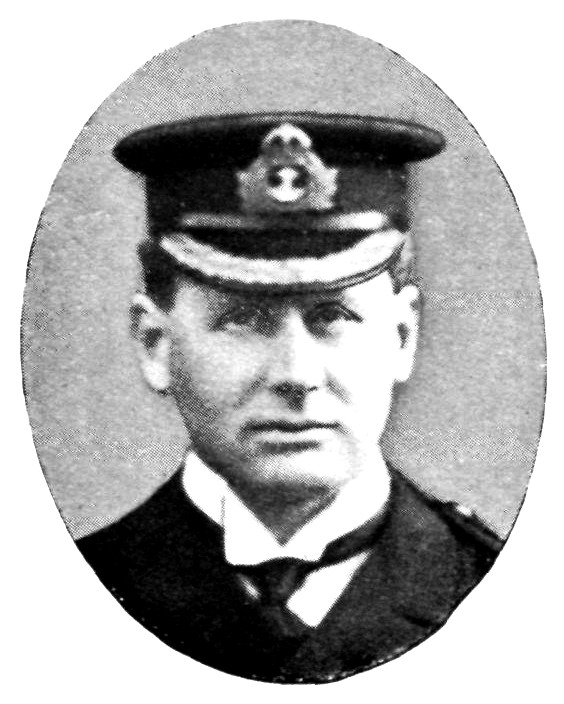 Illustration p54